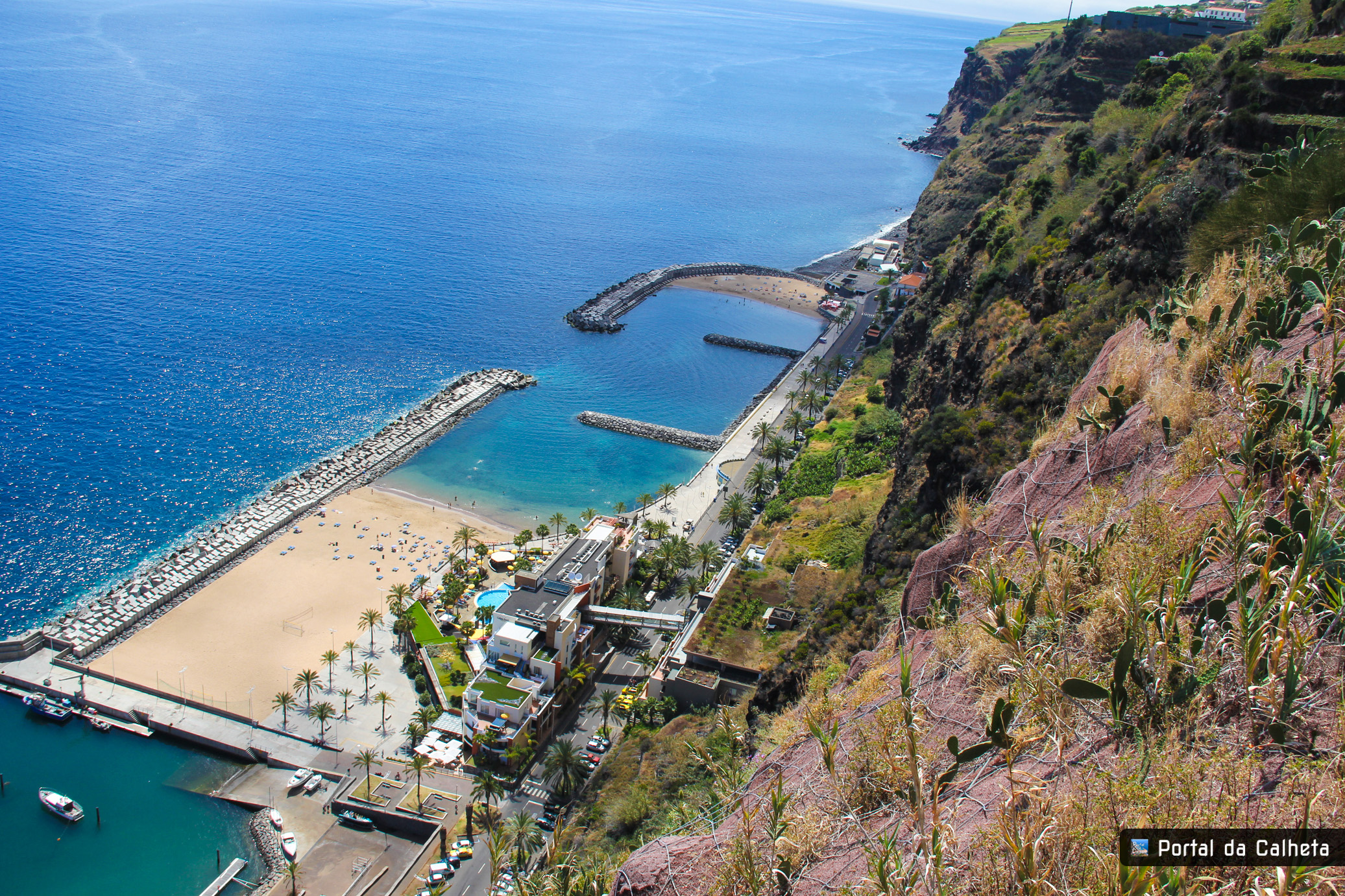 Calheta Beach view from the top